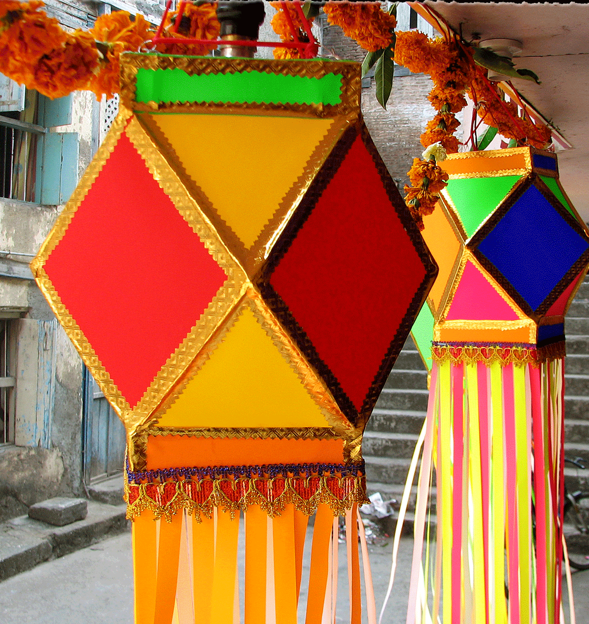 Made from Bamboo, and fixed with starch, thread, the traditional Indian lanterns are in great demand, especially during the festival of Diwali. These lanterns also grace the stage decoration and backdrops of important cultural programs, Indian classical musical concerts.